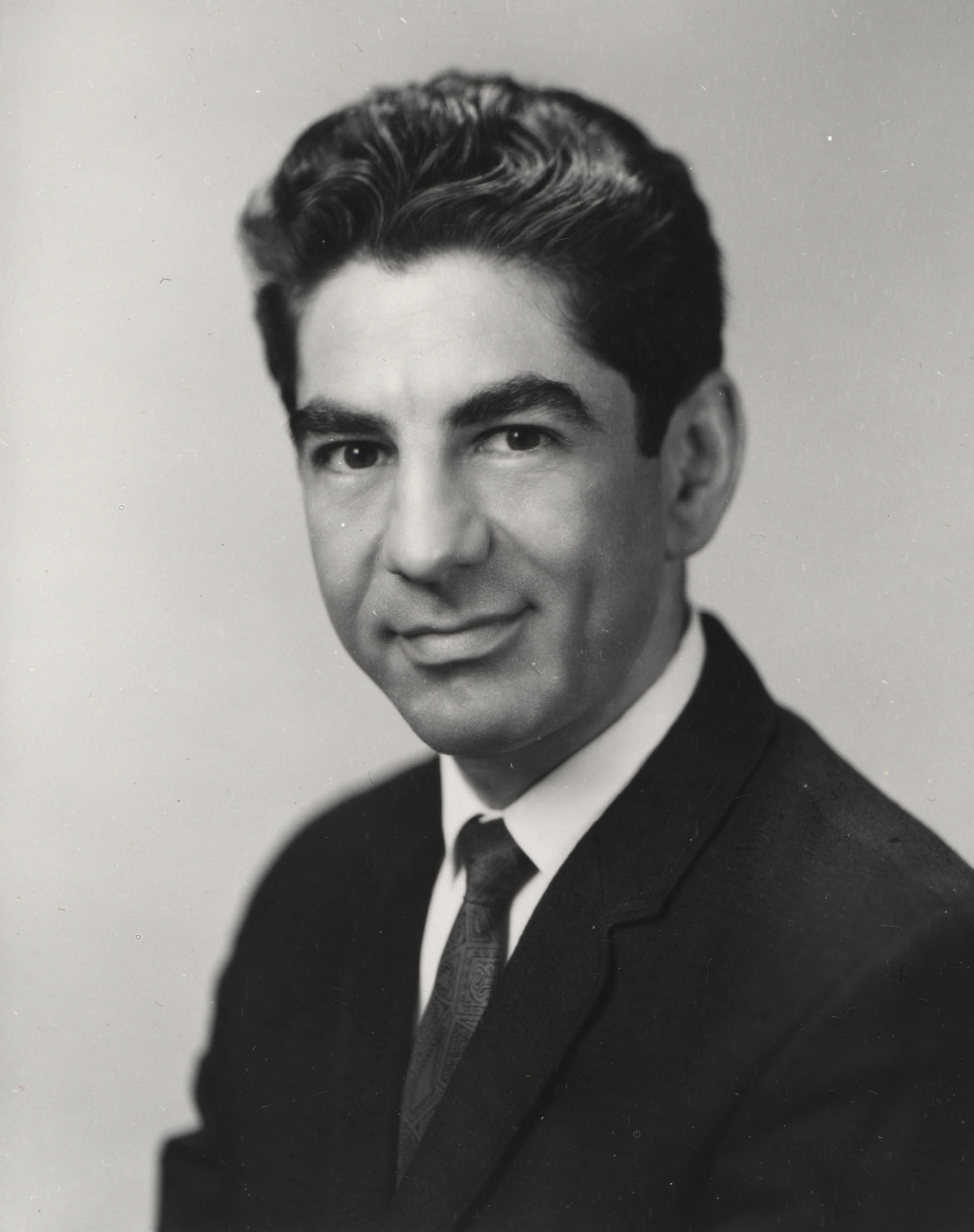 Jesse Leonard Steinfeld, former Surgeon General of the USA.